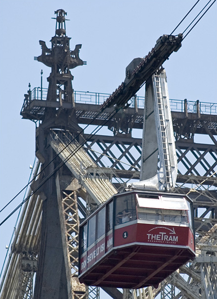 Roosevelt Island Tramway passing by Queensboro Bridge tower